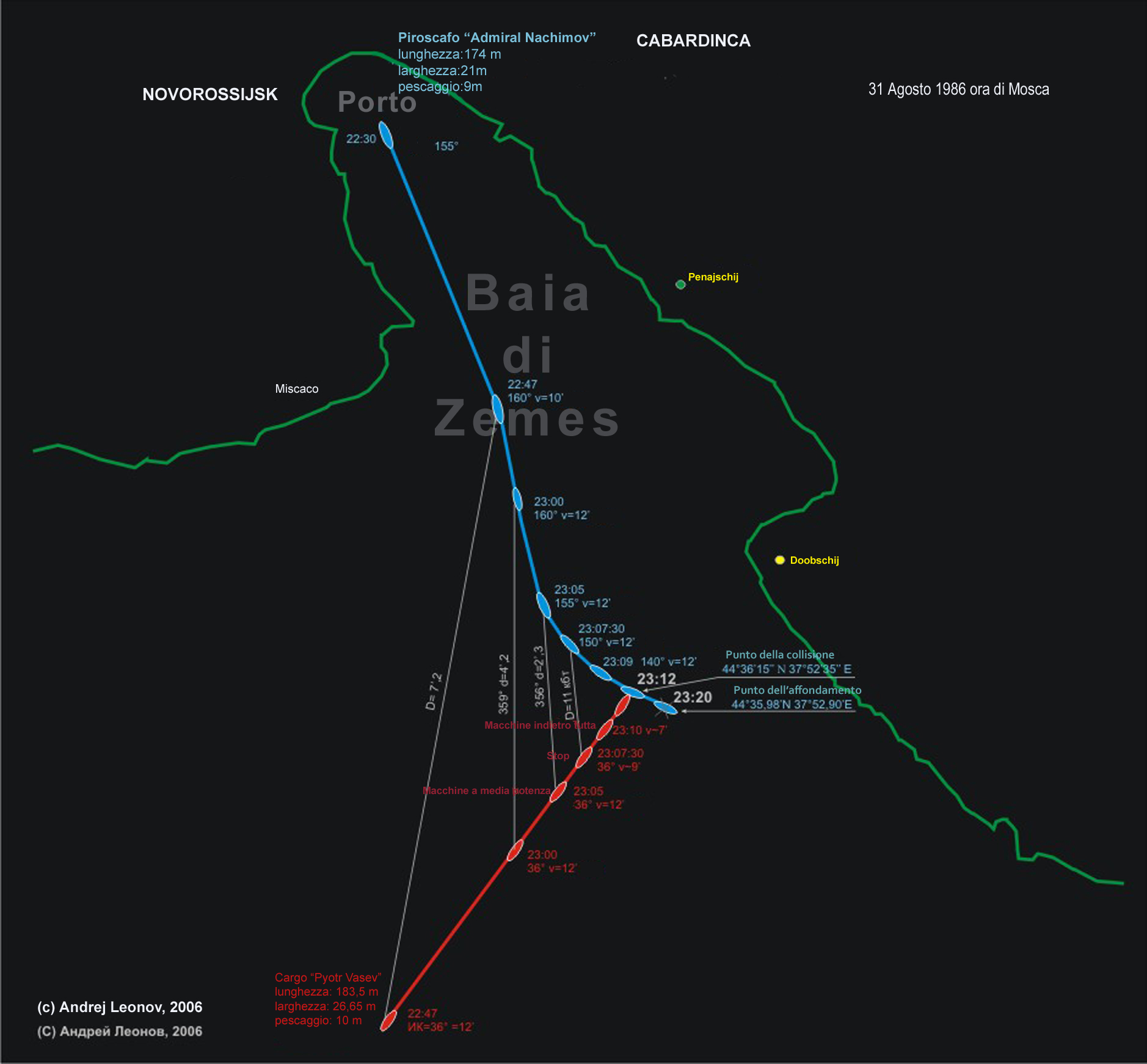 Italian translation of file:Collision-sh.jpg